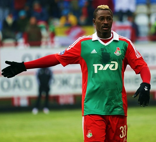 Dame N'Doye